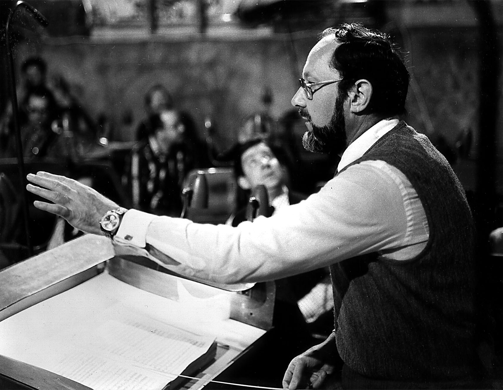 Heinrich Bender dirigiert